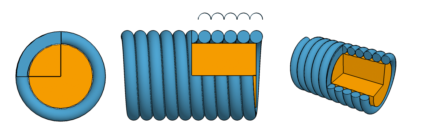 Diagram of roundwound strings for music instruments